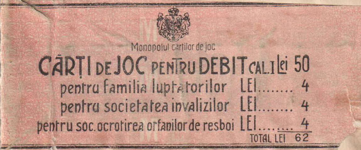 Price list by the State Monopoly for Card Games, late 19th century, Romania